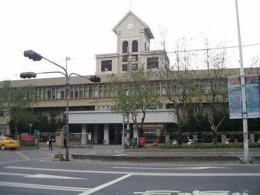 Taiwan Banciao District Court